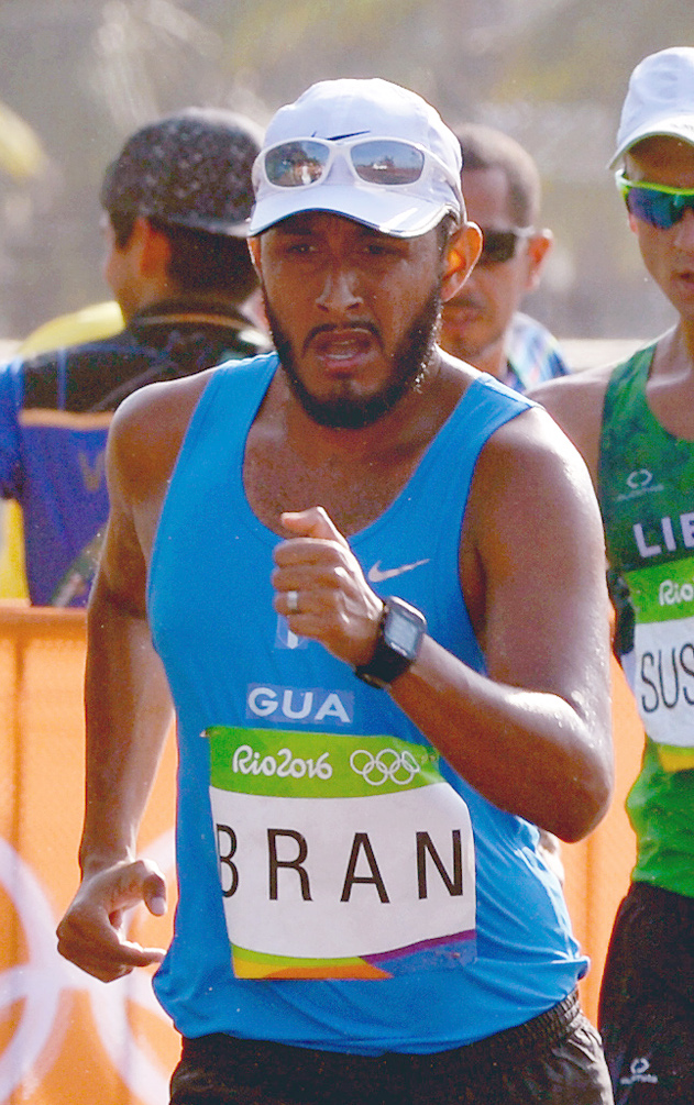 Mario Alfonso Bran in the men's 50-kilometer race walk Aug. 19 at the Rio Olympic Games in Rio de Janeiro. U.S. Army photo by Tim Hipps, IMCOM Public Affairs #SoldierOlympians #ArmyOlympians #ArmyTeam #GoArmy #ArmyStrong #TeamUSA #RoadToRio #Olympics